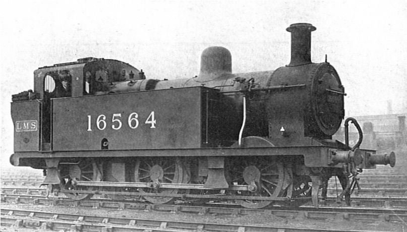 Typical British Freight Locomotives Standard (0-6-0) Shunting Tank Locomotive, LMS